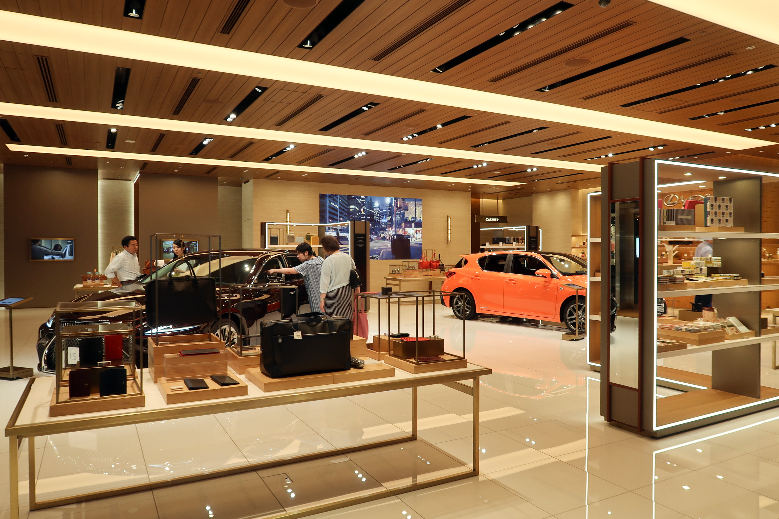 Tokyo Midtown LEXUS MEETS